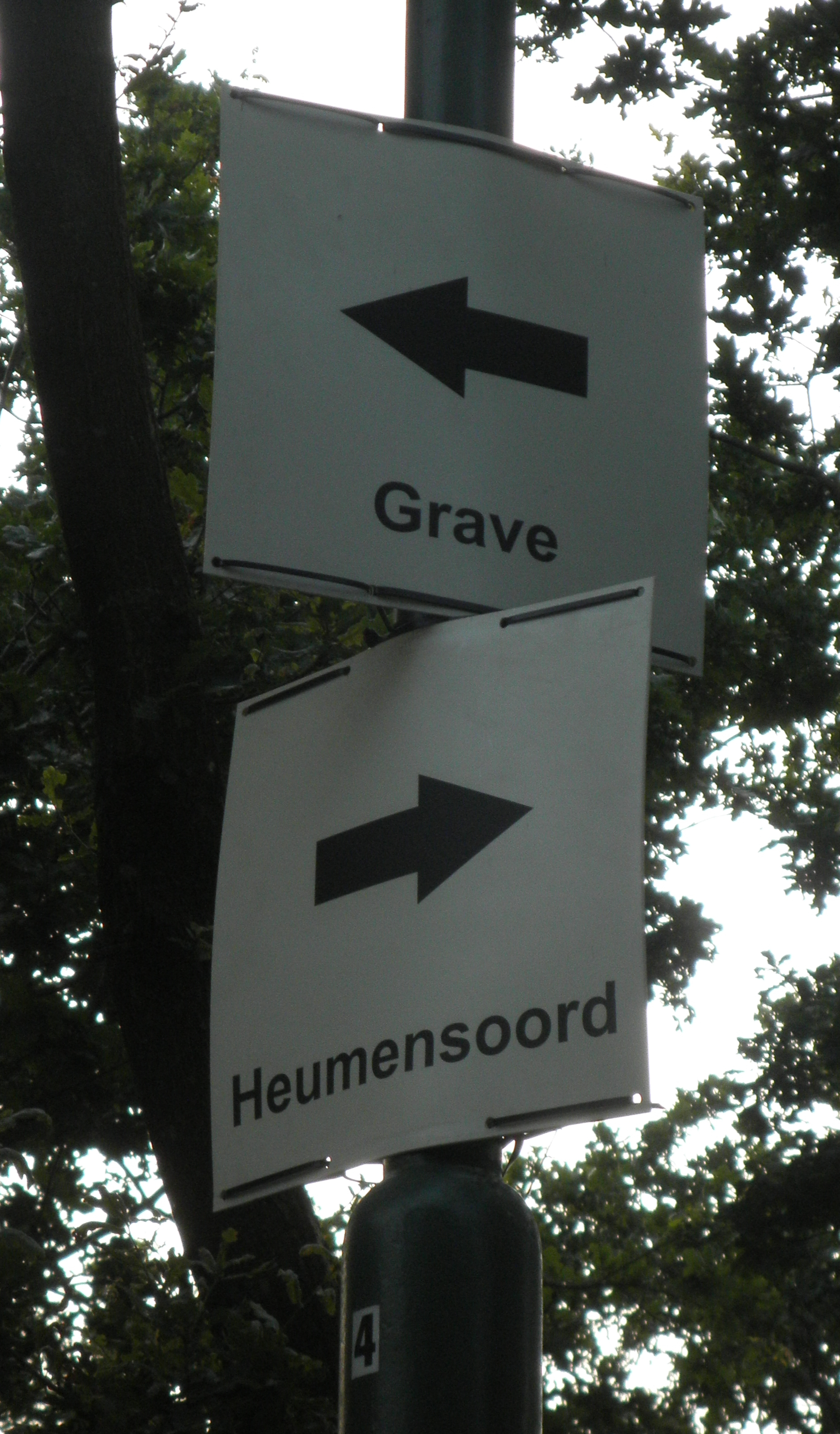 Fingerposts from/to Complex Grave-Driehuis - Camp Heumensoord (International Four Days Marches Nijmegen).